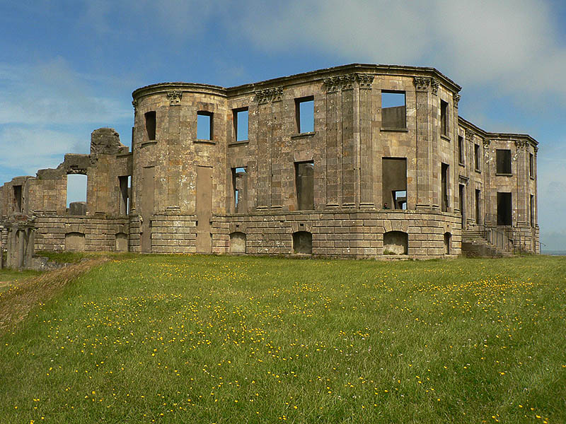 Downhill House, which now lies in ruins, was built by Fredrick Hervey, Bishop of Derry and Earl of Bristol, in the late 1700s. Mussenden Temple, a replica of the Roman temple of Vesta, was built as a library on a cliff overlooking the sea.